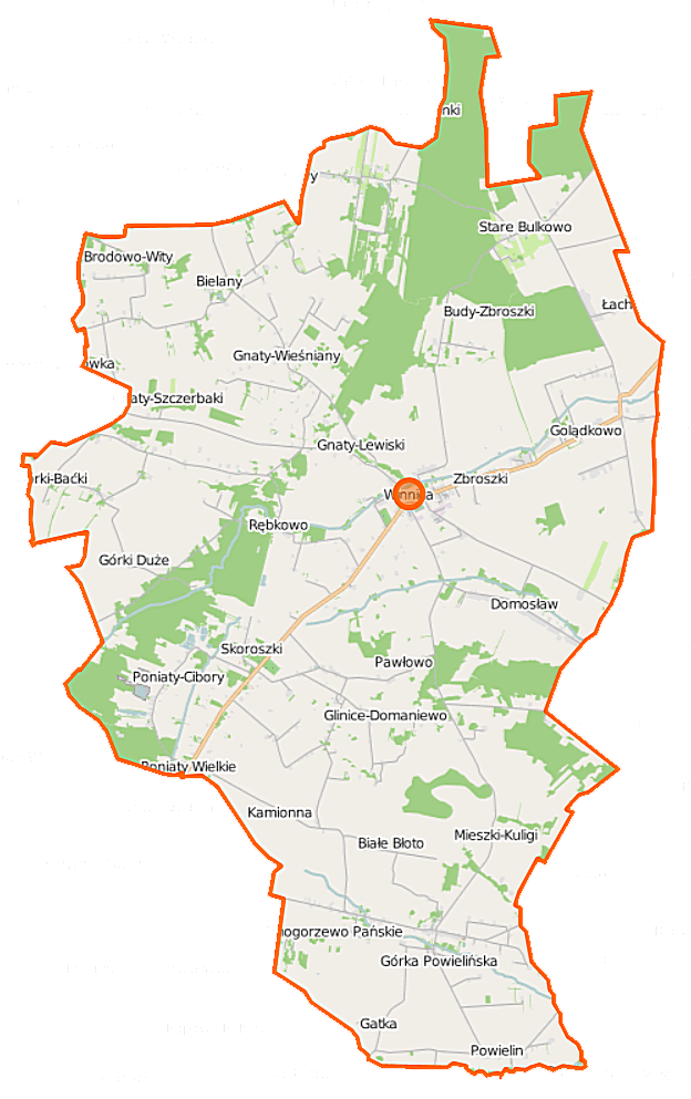 Map of Gmina Winnica, Poland This map of Winnica (gmina) was created from OpenStreetMap project data, collected by the community. This map may be incomplete, and may contain errors. Don't rely solely on it for navigation. Border coordinates52.718620.8393←↕→21.010752.5530